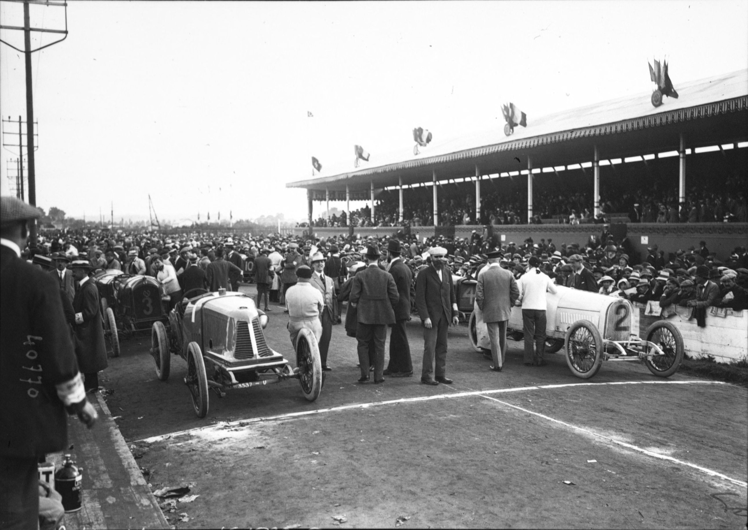 Grid of the 1914 French Grand Prix